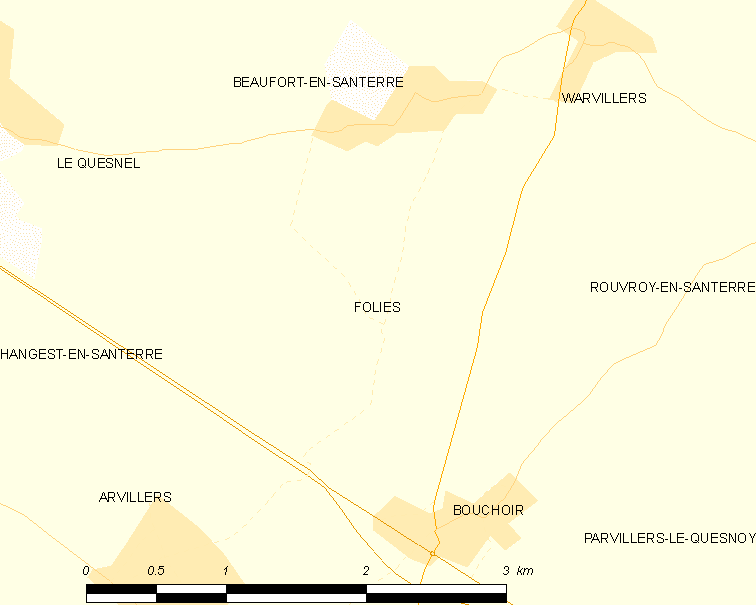 Map of French municipality Folies